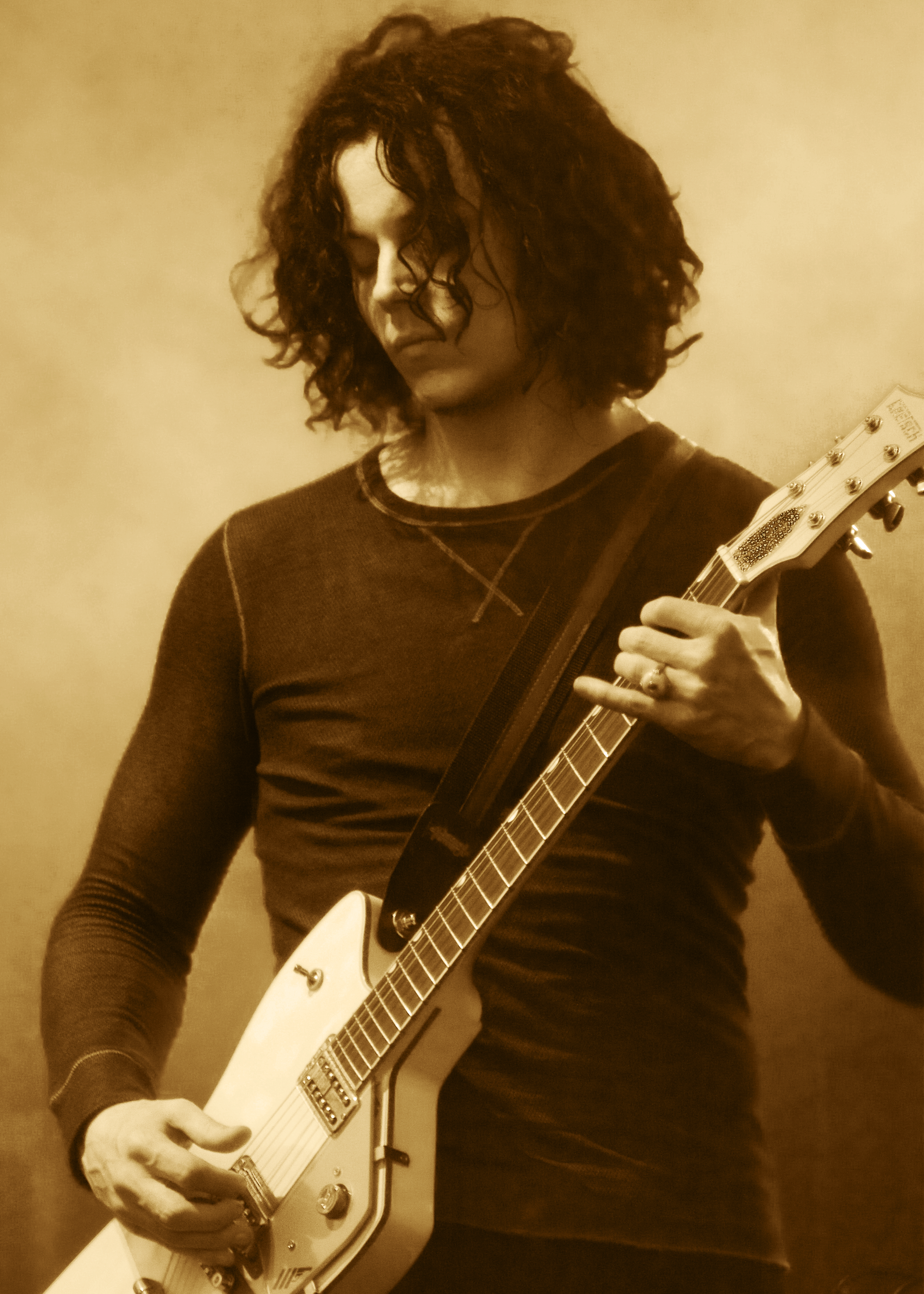 2009 , File:Jack White Ottawa.jpg